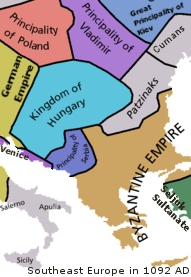 Southeast Europe 1092